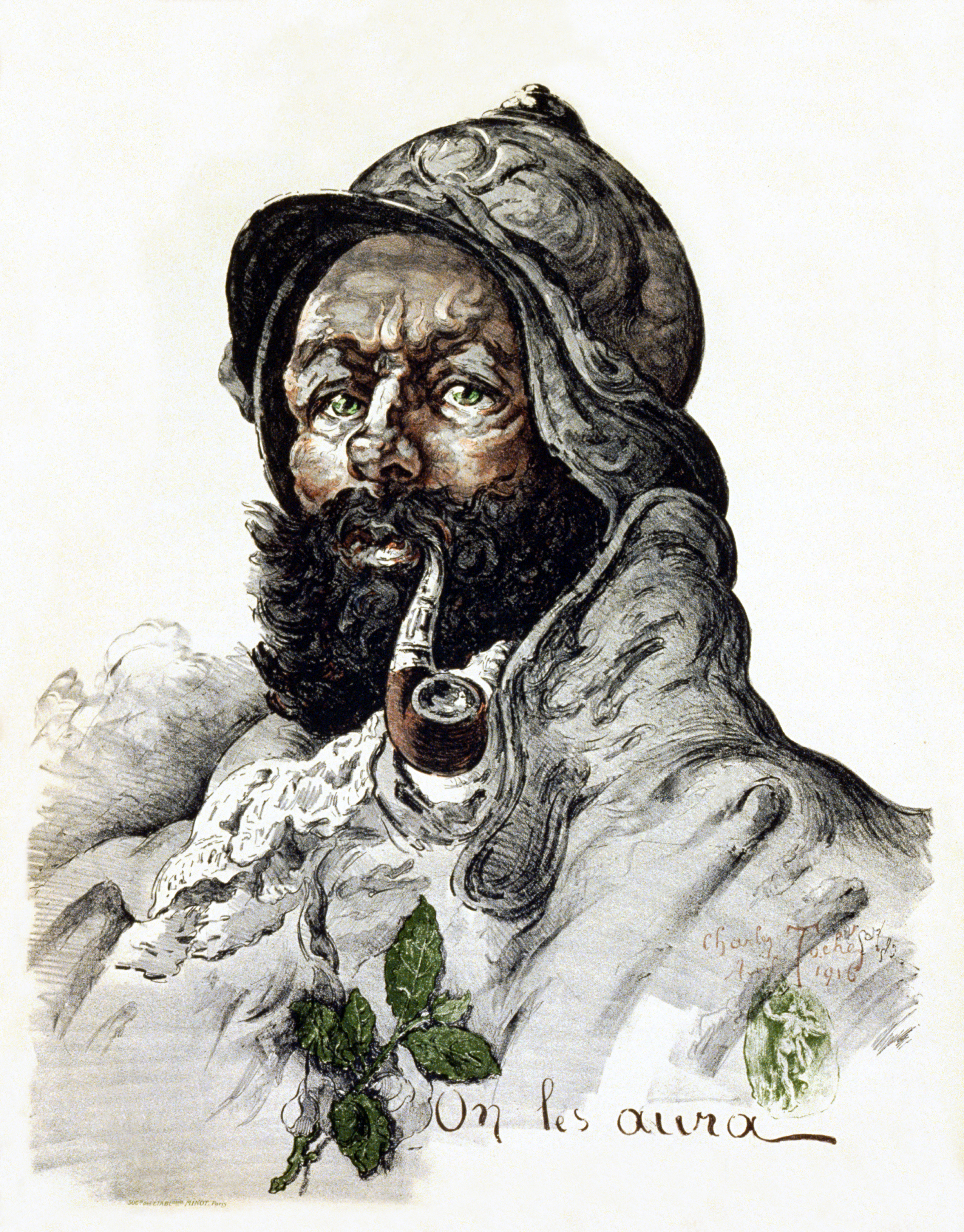 "On les aura". Bust portrait of a poilu (French soldier) smoking a pipe.